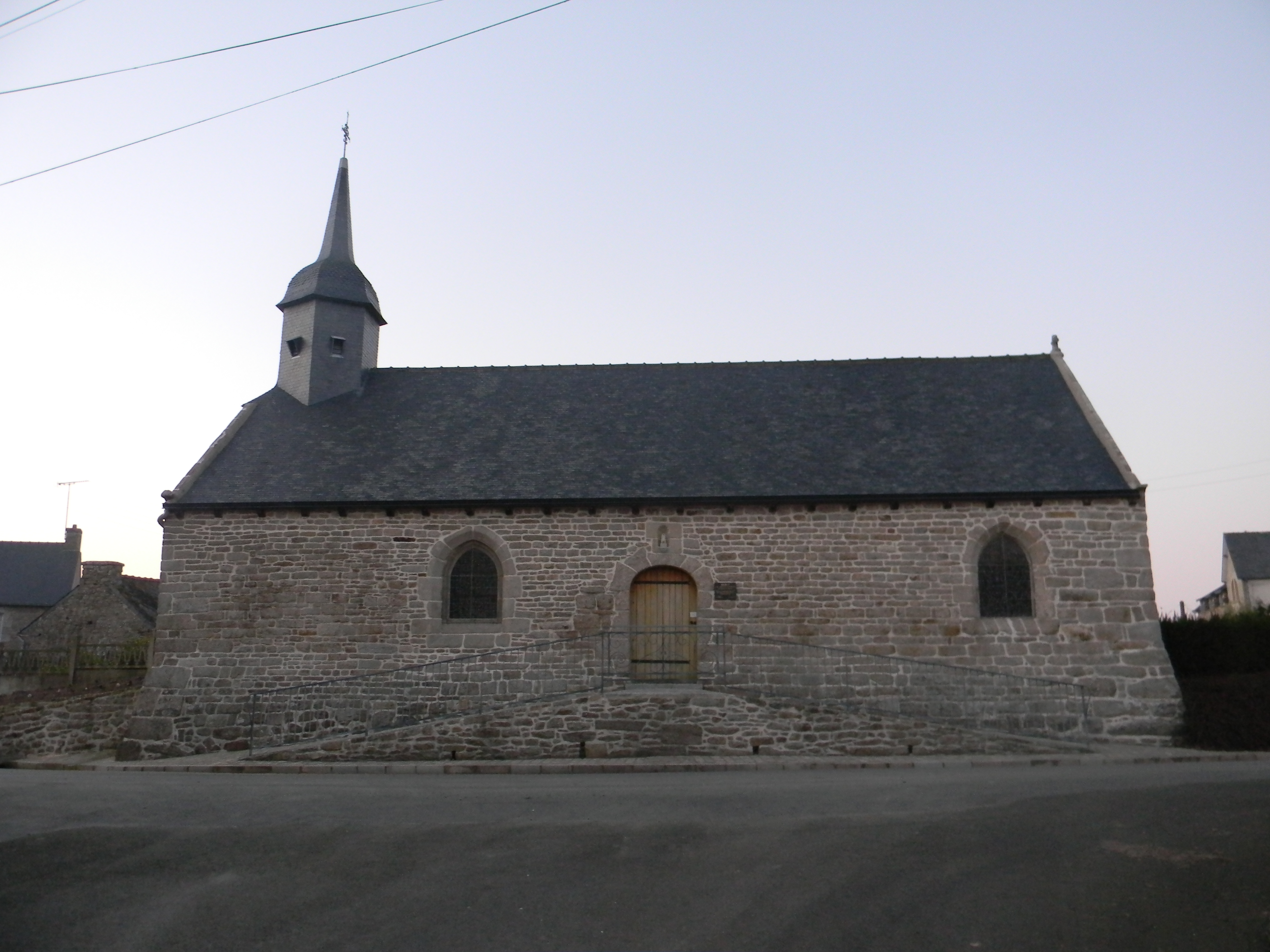 Chapelle de Saint Laurent (Plémy)